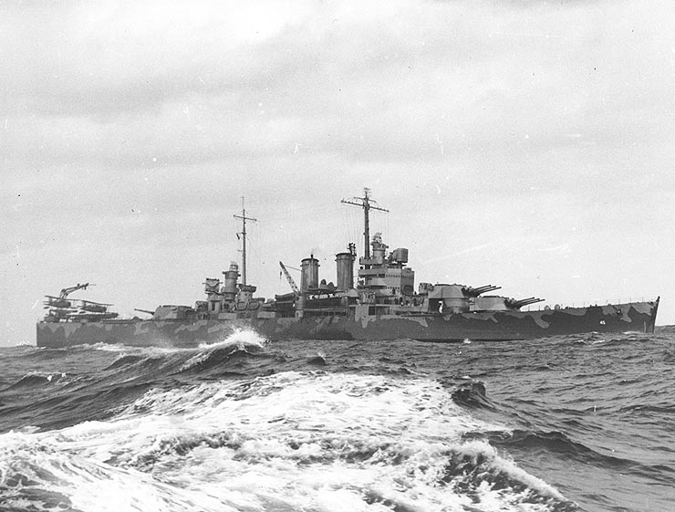 The U.S. Navy heavy cruiser USS Wichita (CA-45) operating with the British Home Fleet, in the vicinity of Scapa Flow, Scotland (UK), 22 April 1942.